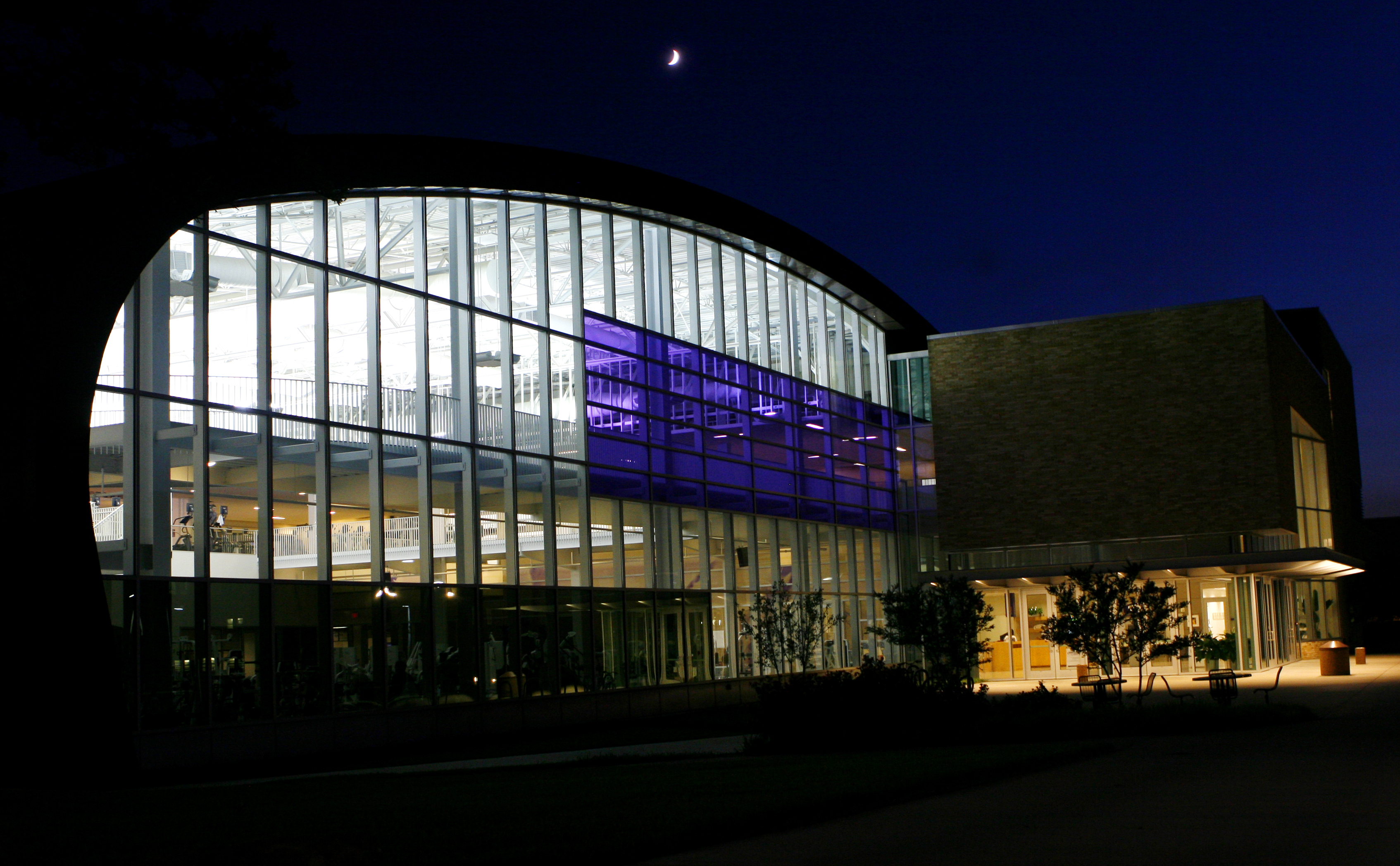 TCU's University Recreation Center.